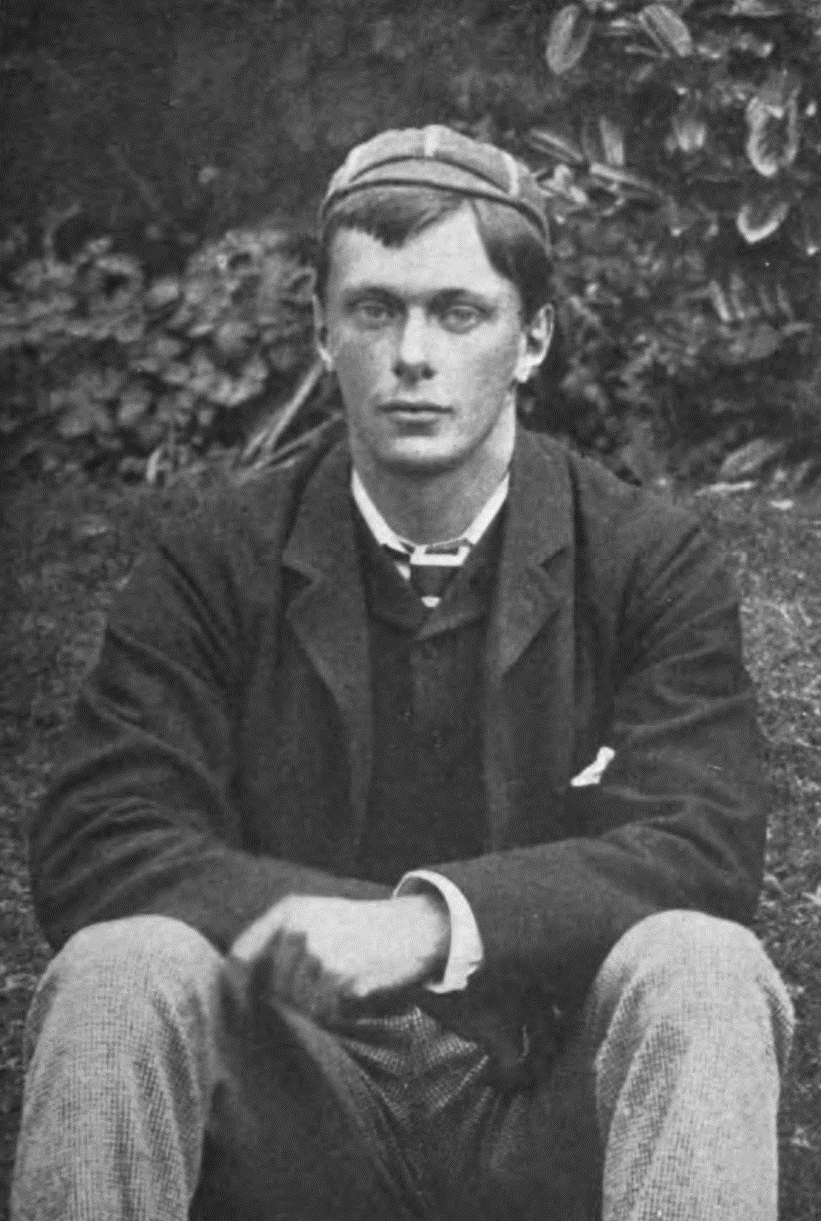 Benson, at 19.